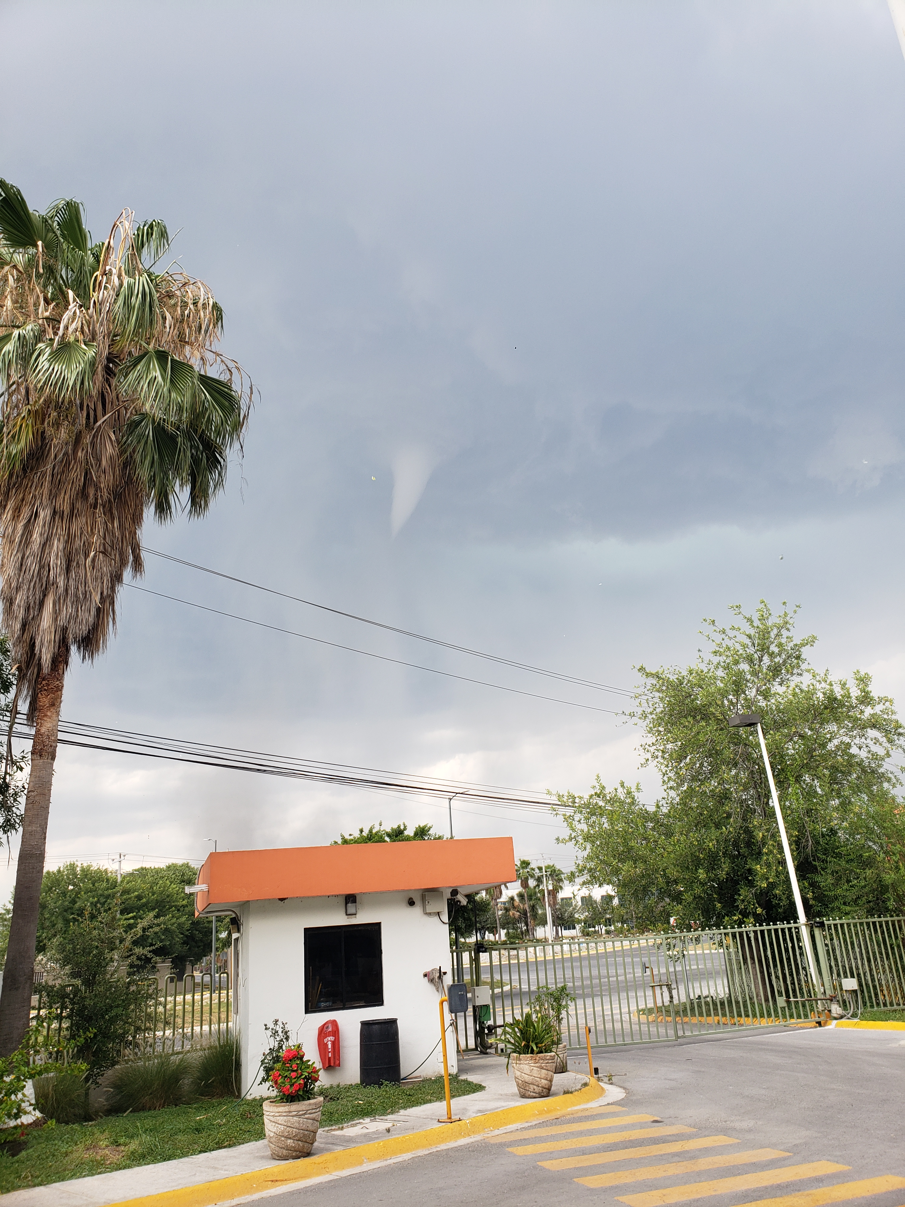 Formation of EF2 Tornado Apodaca, Nuevo Leon, Mexico, near intl airport